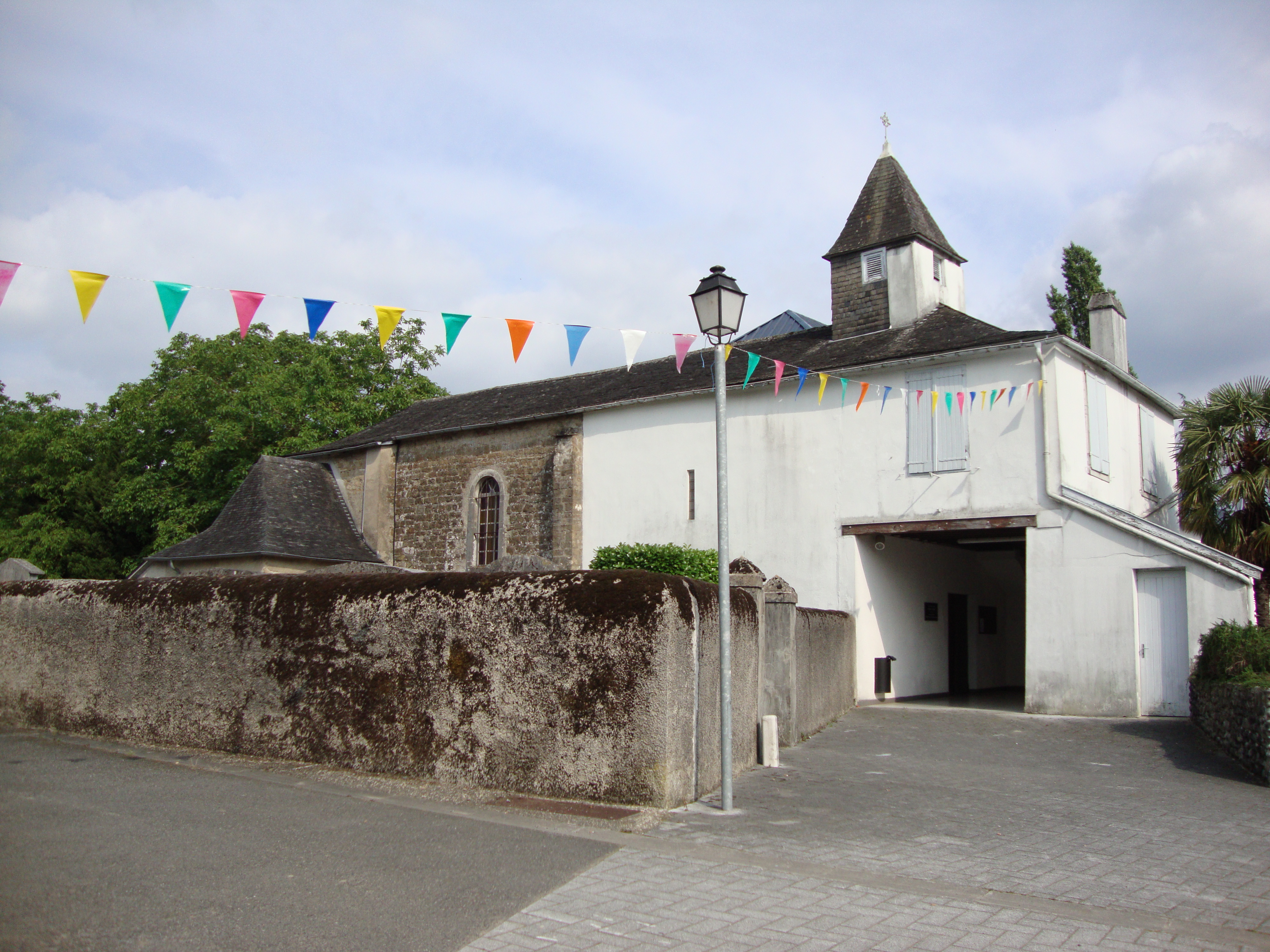 Estos (Pyr-Atl, Fr)